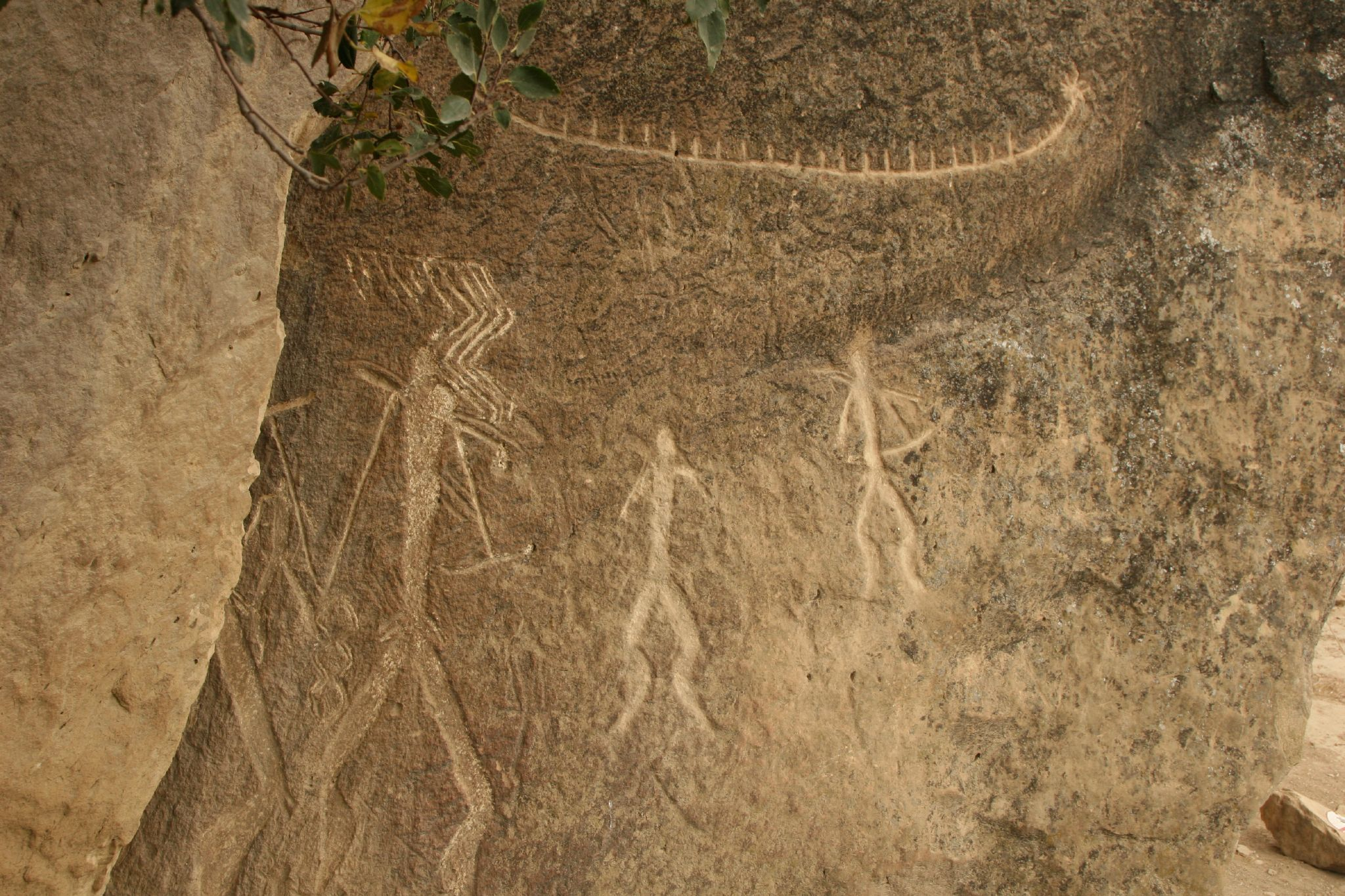 Petroglyphs of Qobustan (Azerbaijan); a UNESCO World Heritage. Settled since the 8th millennium BC, the area contains thousands of rock engravings spread over 100 square km depicting hunting scenes, people, ships, constellations, animals, etc. Qobustan's consecration in the world stage arrived in 2007, when UNESCO included the 'Qobustan Rock Art Cultural Landscape' in the World Heritage list. The oldest petroglyphs date from the 12th century BC. Later, the European invaders also left their marks: inscriptions left by Alexander the Great's cohorts in the 4th century BC and 2,000-year-old graffiti written by Trajan's Roman legionnaires! The petroglyphs of Qobustan were discovered accidentally by quarry workers only in the 1930s. In addition to the rock carvings, traces of Mesolithic period occupation are to be seen, with numerous burial mounds and graves. The local museum adjacent to the site houses the ornaments, flints, shells, ceramics, beads and primitive tools that were found inside the caves - often objects of non Caspian origin, evidence of ancient links with Europe and the Indian sub-continent. Based on the archeological finds and on content of the petroglyphs, recently it has be theorized that a connection exists between the ancient Azeris and the peoples of Scandinavia, which is not surprising at all, since some of the original habitants of the region, the Medes, were not a Turkic people, but an Indo-European people.